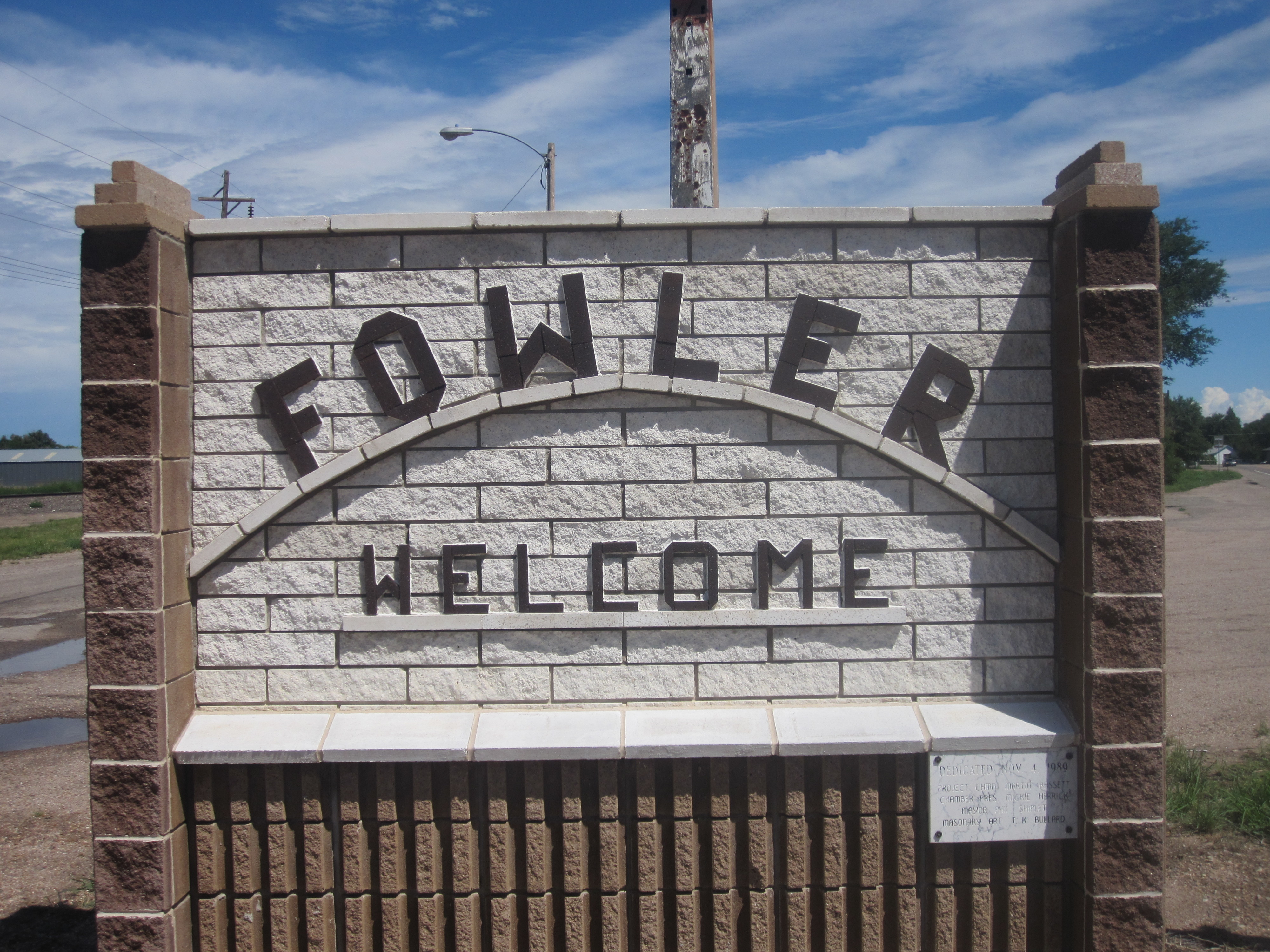 I took photo in Fowler, CO, with Canon camera.